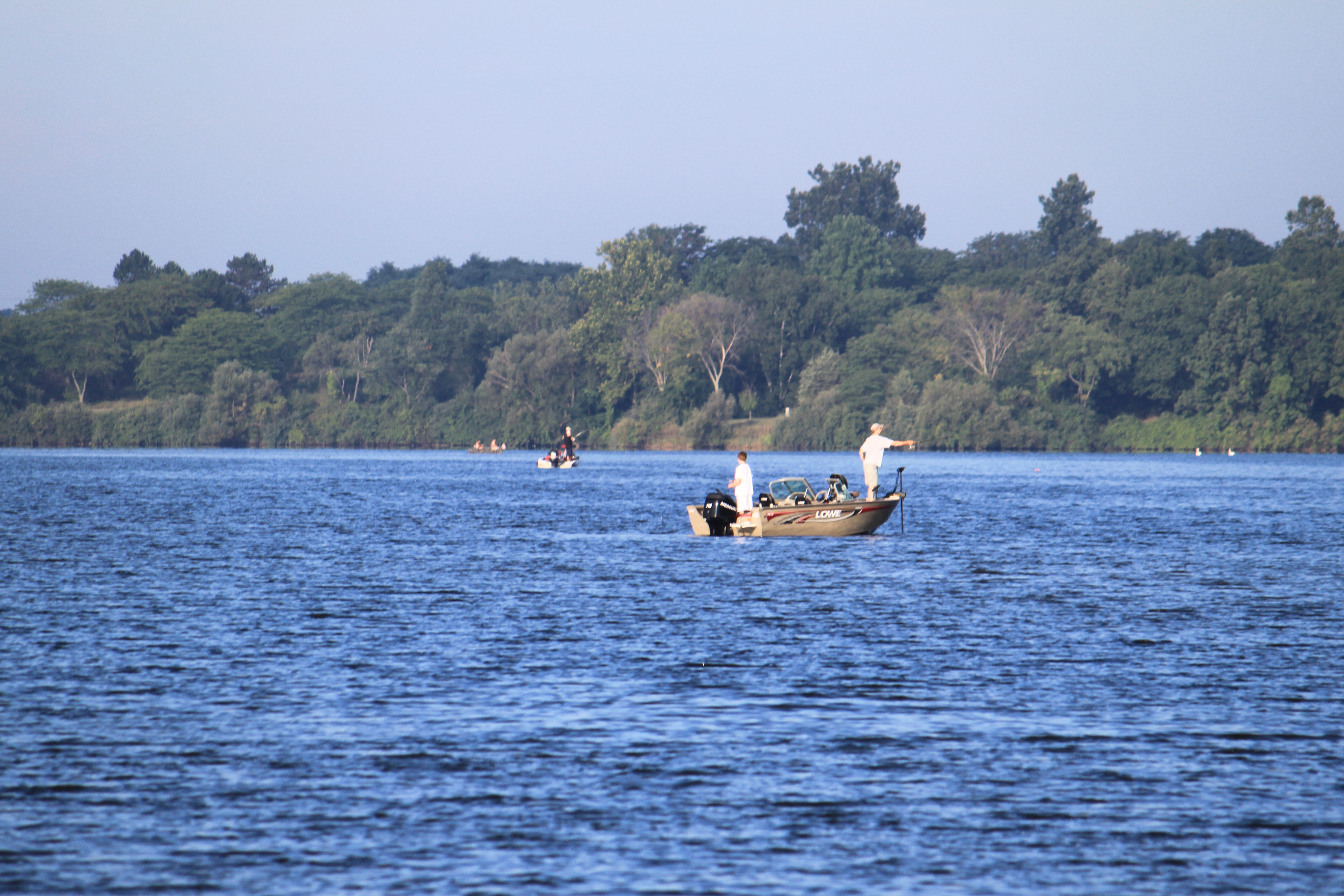 Kensington Metropark, Milford Michigan, sport fishing on Kent Lake